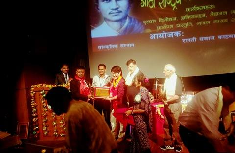 This picture was taken during the Eighth Rapati Samaj Award.